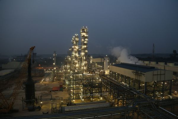 Shahjalal Fertilizer Factory, Bangladesh